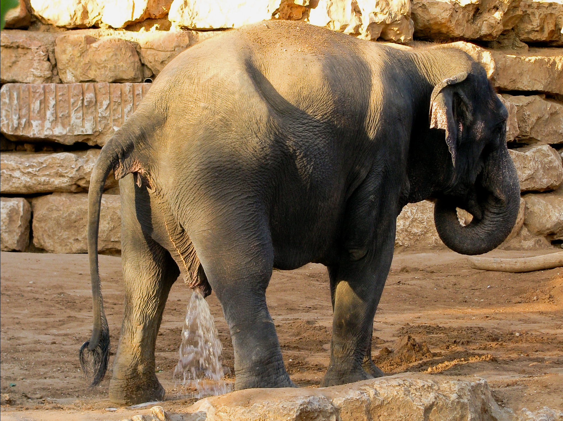 At the Biblical Zoo, Jerusalem.